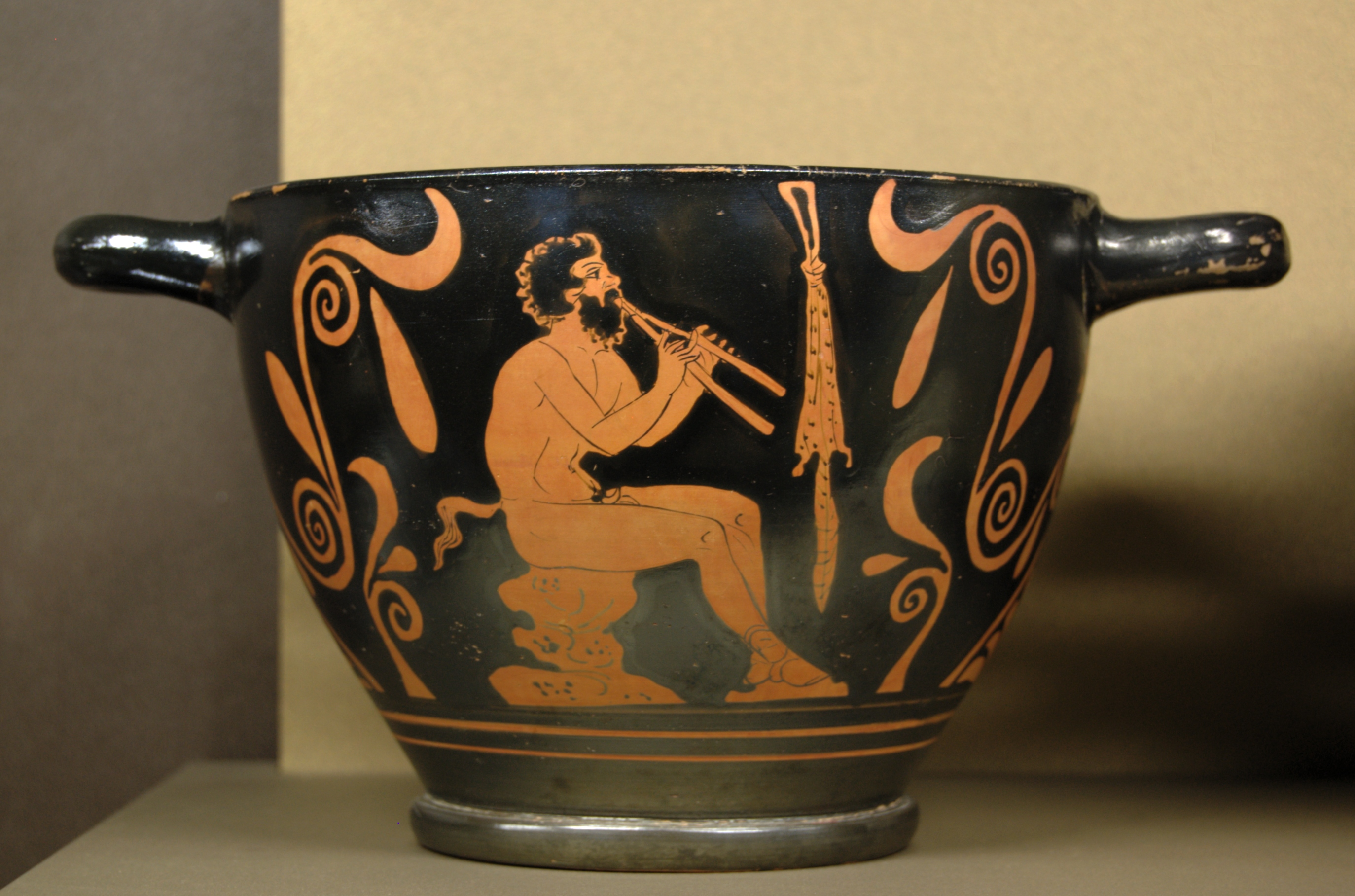 Satyr playing the aulos. Side A from an Lucanian (Metapontium) red-figure skyphos, ca. 400–390 BC.